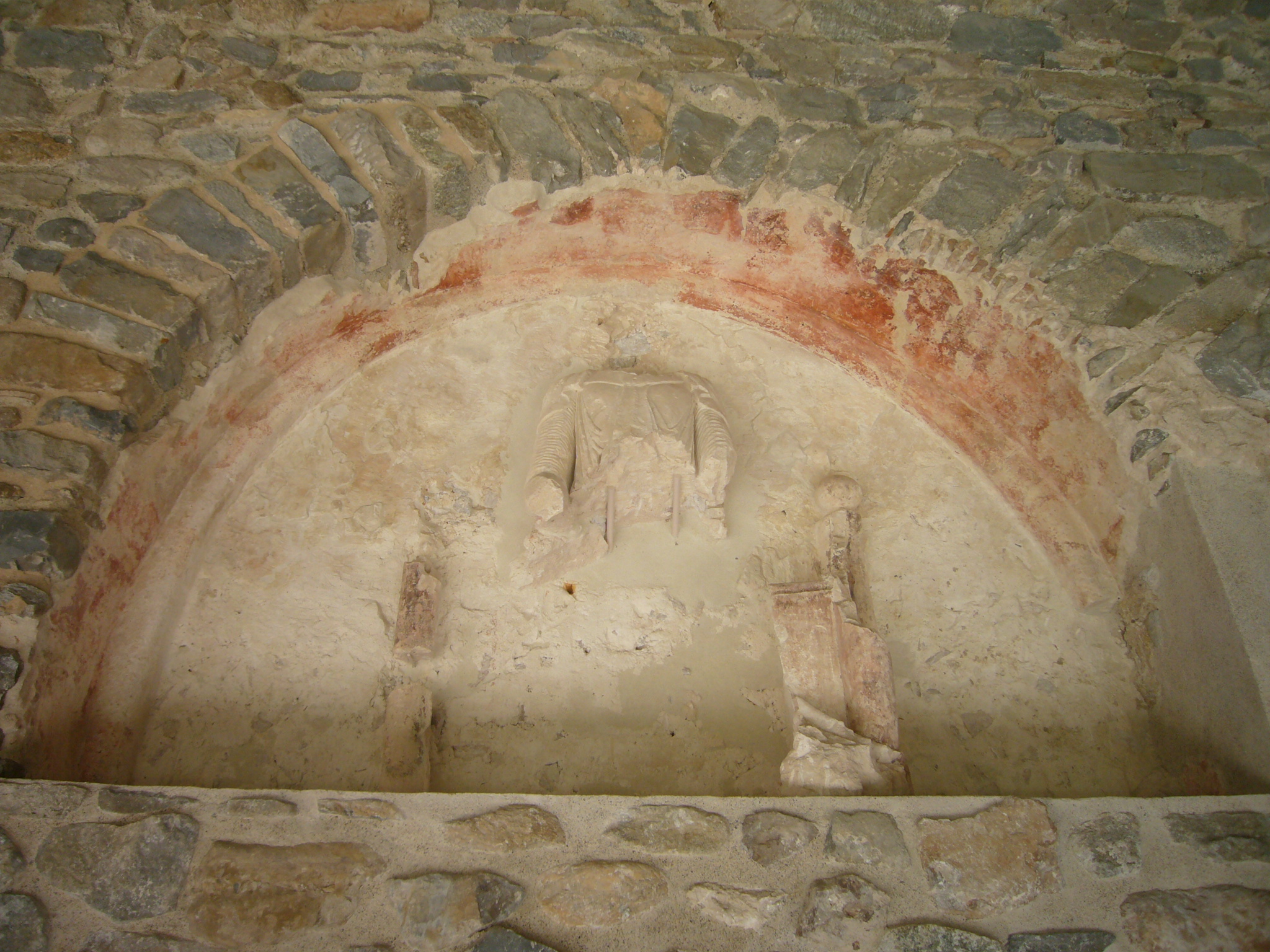 Evidence of a seated Virgin Mary. Plaster sculpture damaged. All that remains is part of the torso and of the throne. (Ripoll cloister)